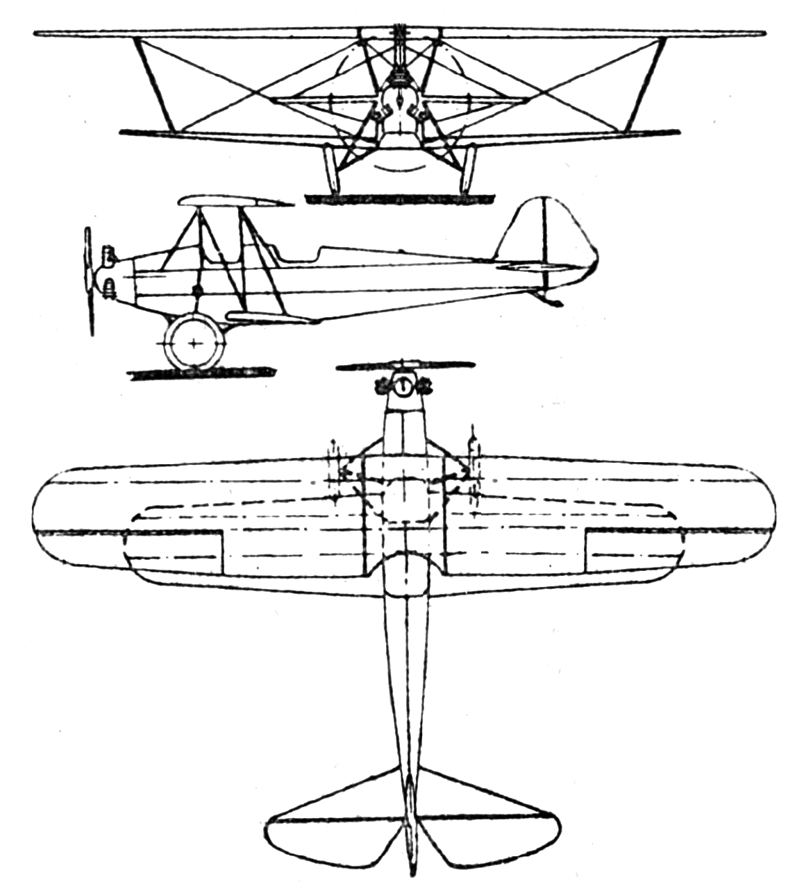 Raab-Katzenstein RK 9 3-view drawing from Le Document aéronautique November,1927